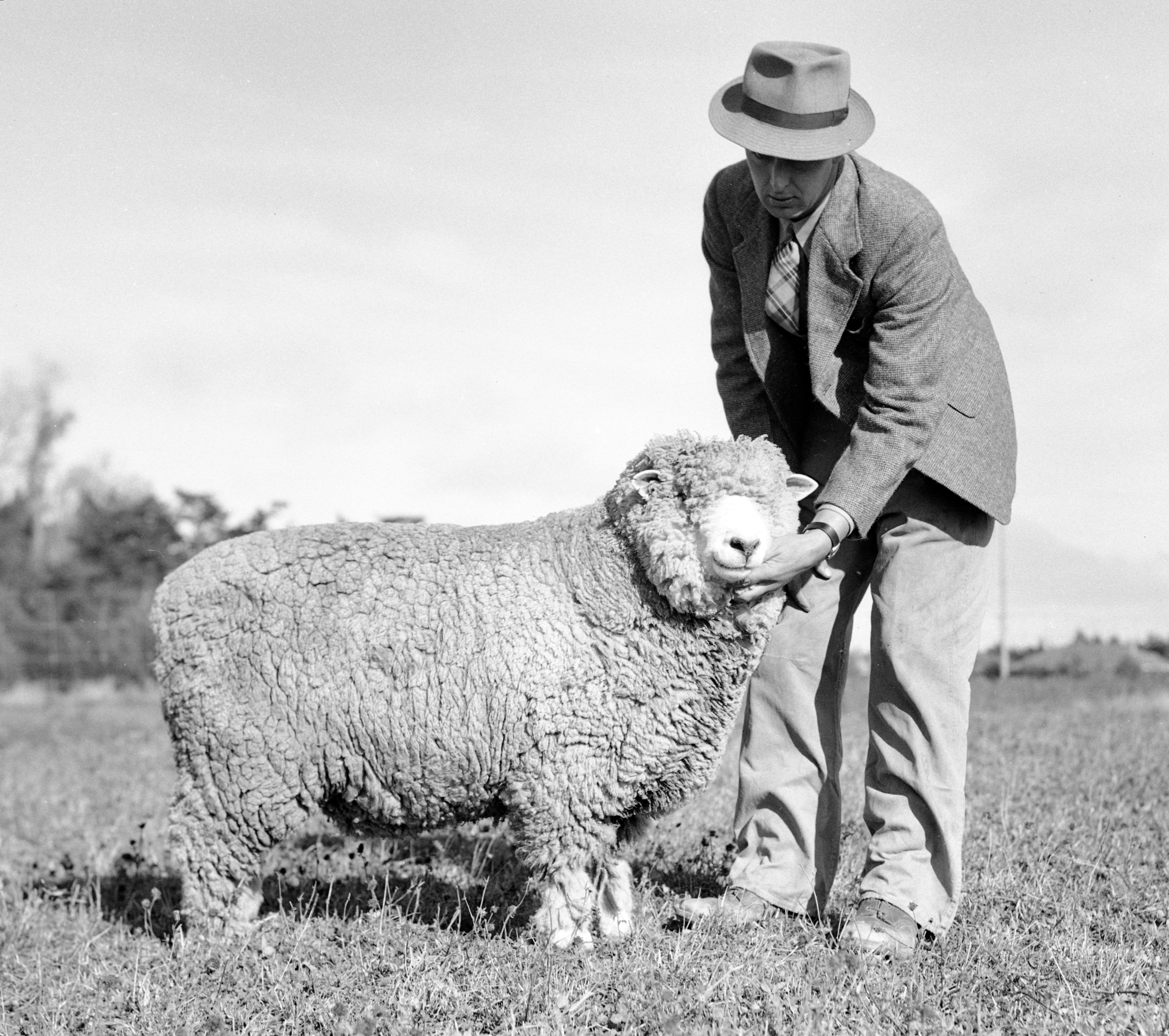 A Corriedale Ram, Canterbury Agricultural College stud J50/46. 1st, Christchurch Show, Coarse Hog in Wool, 1947. Special prize for Best Corriedale Ram Hogget at Show.